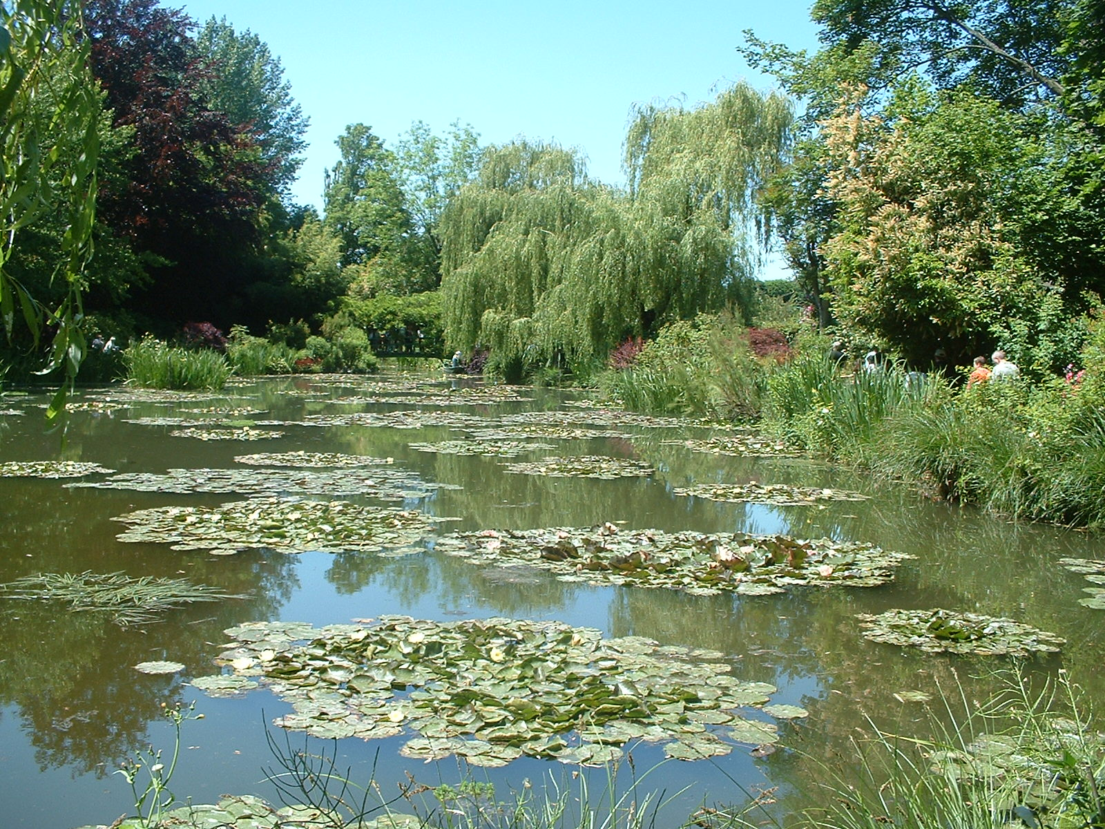 Nympheas in the Claude Monet's garden in Giverny